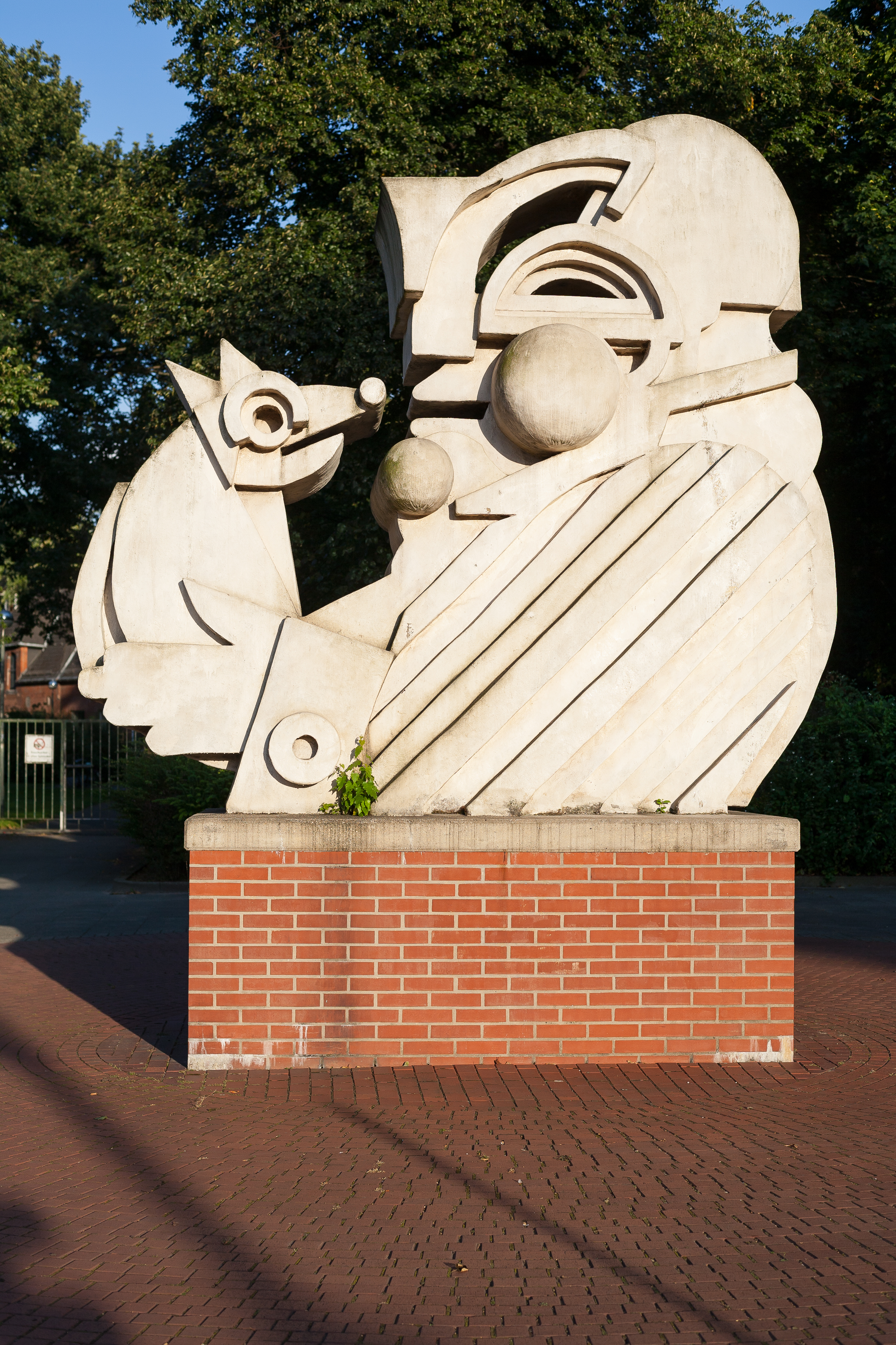 Sculpture "Dicker Mann frisst Maus" (= Thick man eats mouse) by WP Eberhard Eggers (1939 - 2004) located at Braunschweiger Platz square in Hanover, Germany.